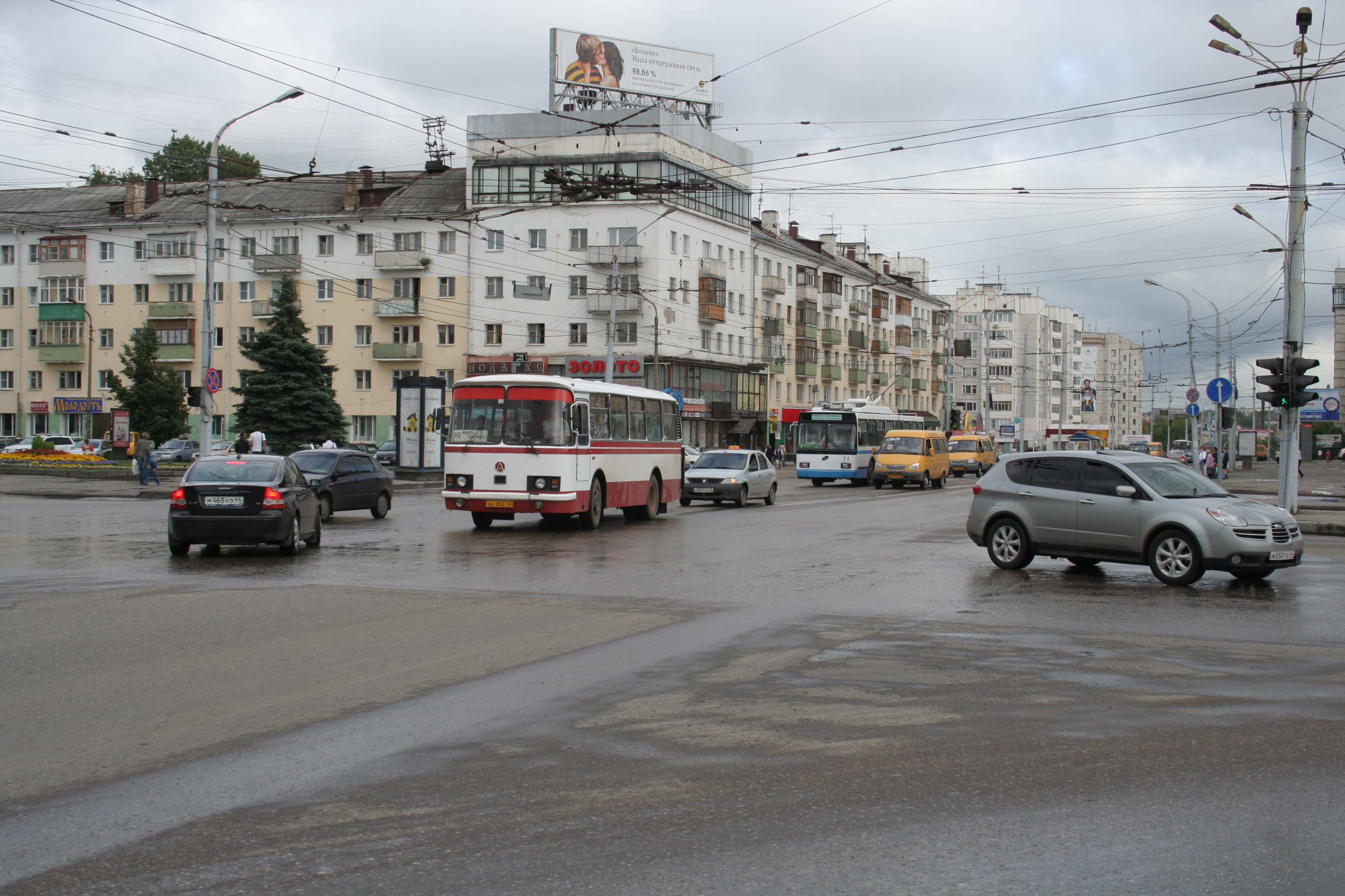 LAZ 695 regional bus (BB 850 44) and a VMZ 5298 trolleybus in Kostroma, Russia.